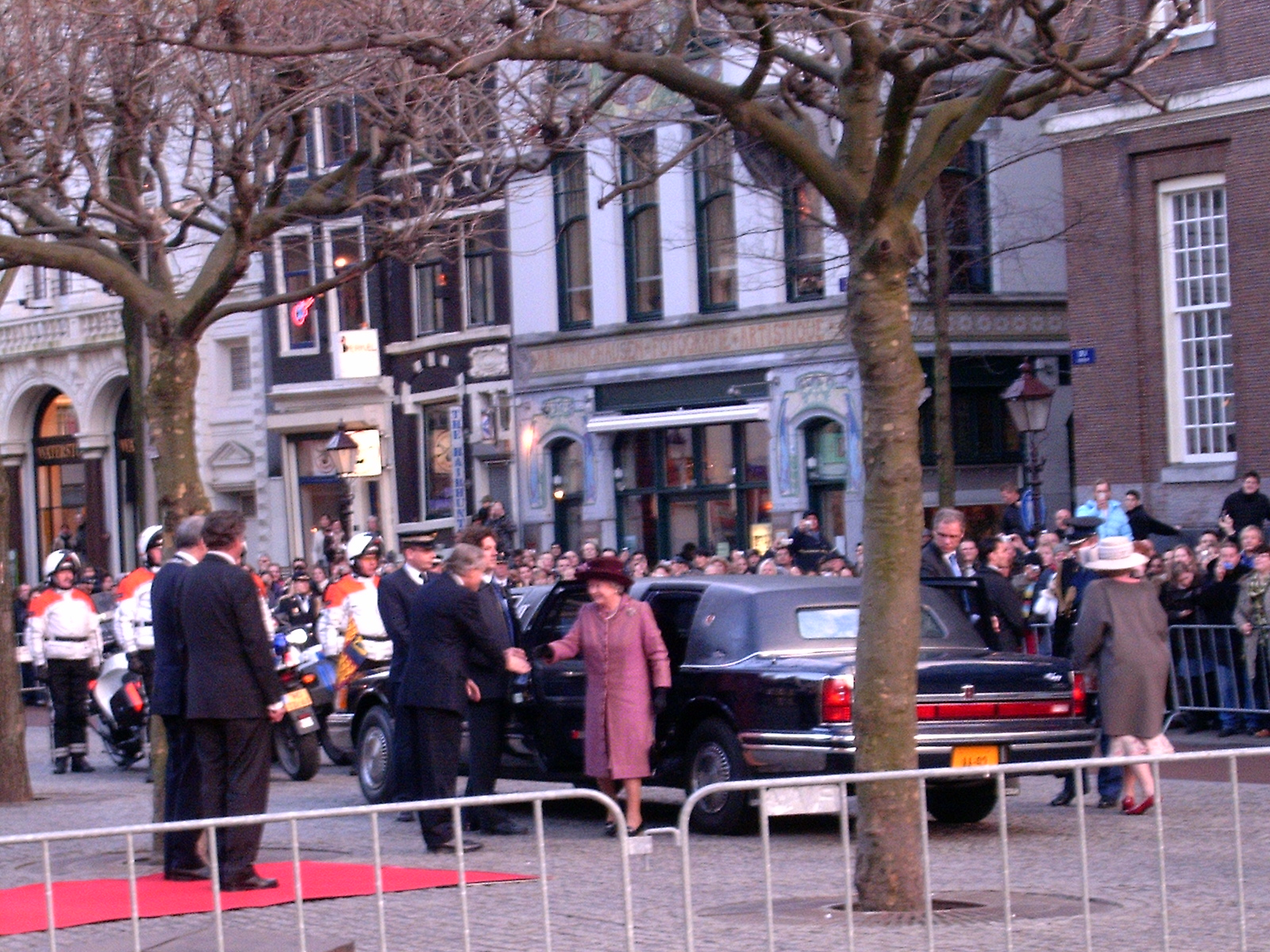 The Queen Elizabeth II and the Duke of Edinburgh visits the Church of England)